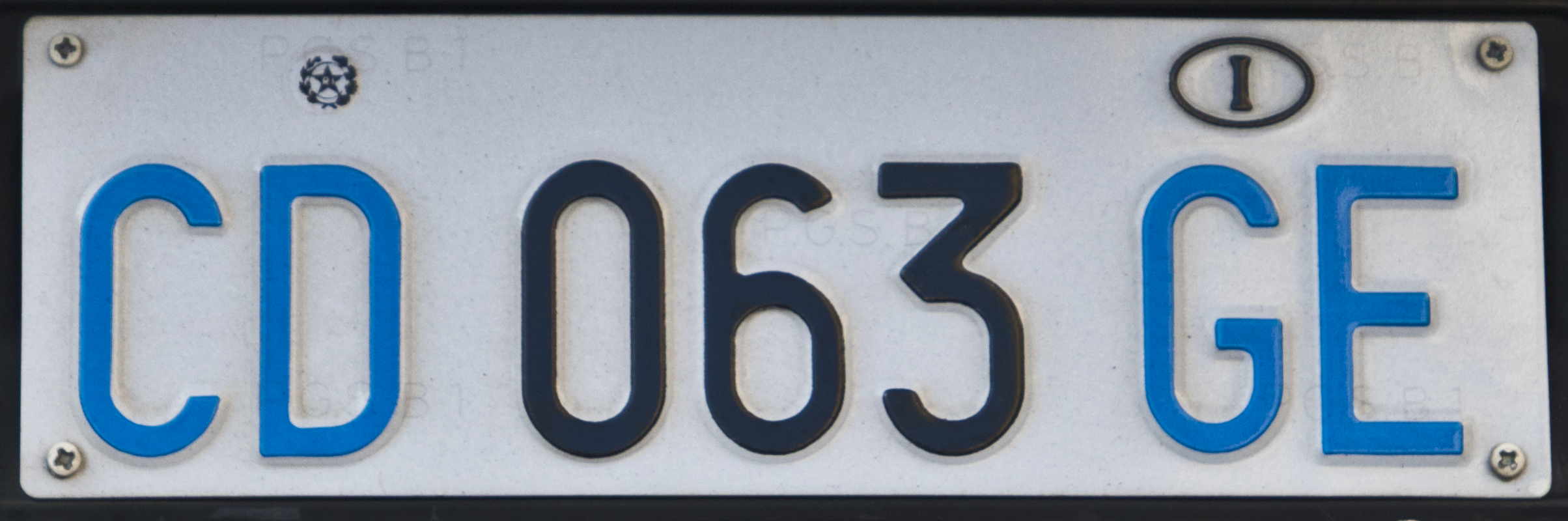 Registration Plate of Corpo Diplomatico